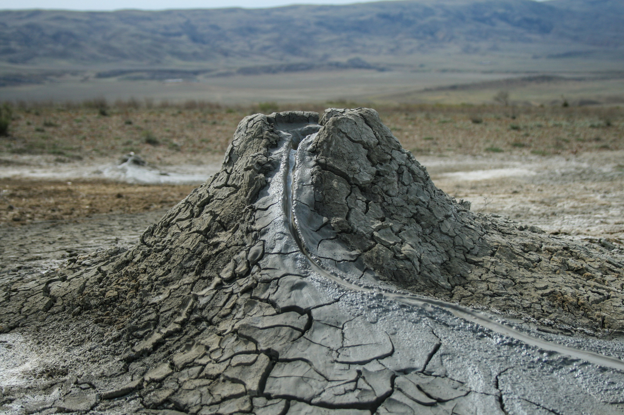 Takhti-Tepha Natural Monument Attraction: Takhti-Tepha is an inorganic natural monument that occupies 1 hectare and consists of bubbling mud craters erupting from the ground. It is located to the south of Dali water reservoir, paralel to Takhti-Tepha mountain range. The craters, along with small open vents are constantly active, erupting mud, oil and gas. The length of the pedestrian path to Takhti-Tepha is 0.5 km or 30 minutes. The total area of the natural monument is 9.7 ha.